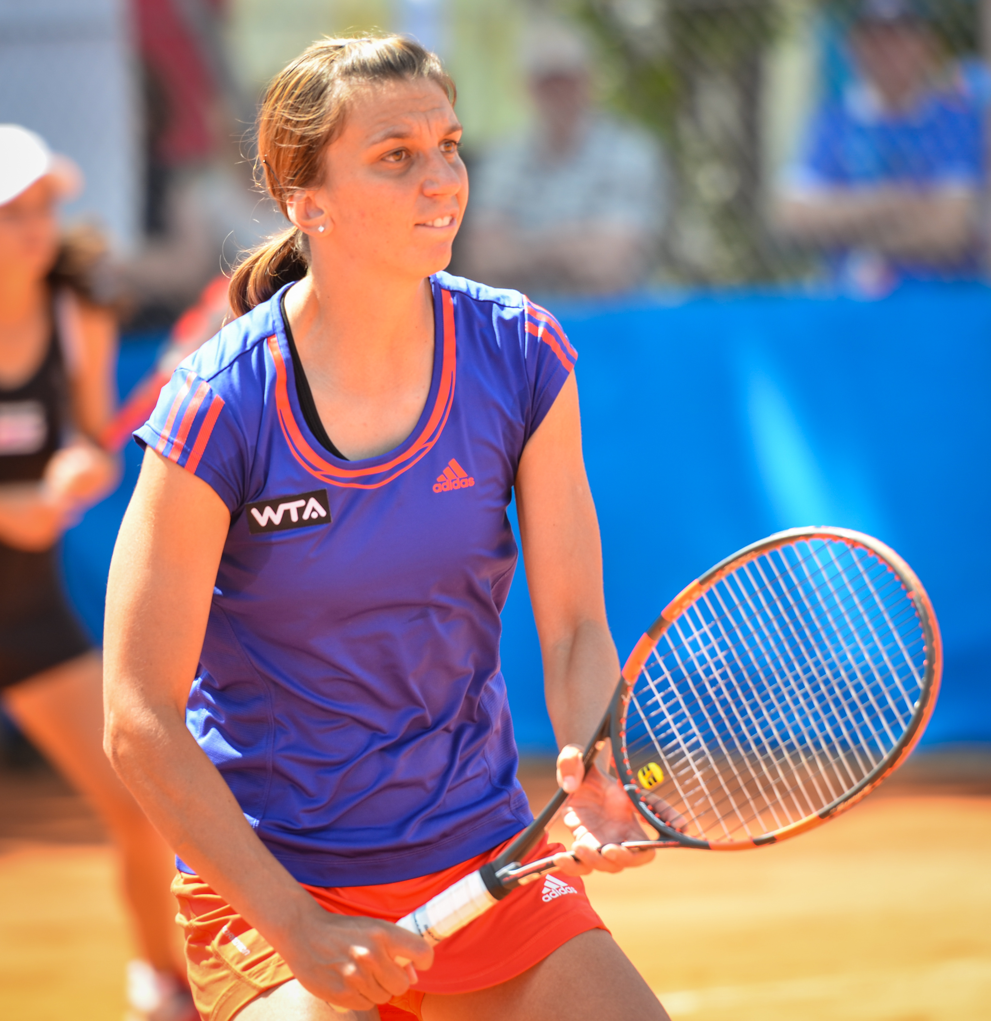 Ana Vrljić playing the net during 1st round doubles match with Ilona Kremen against Raluca Olaru and Shahar Pe'er at the 2014 Nürnberger Versicherungscup